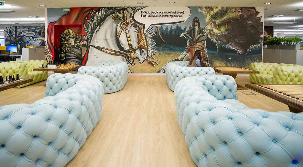 Tinkoff Bank office in Moscow